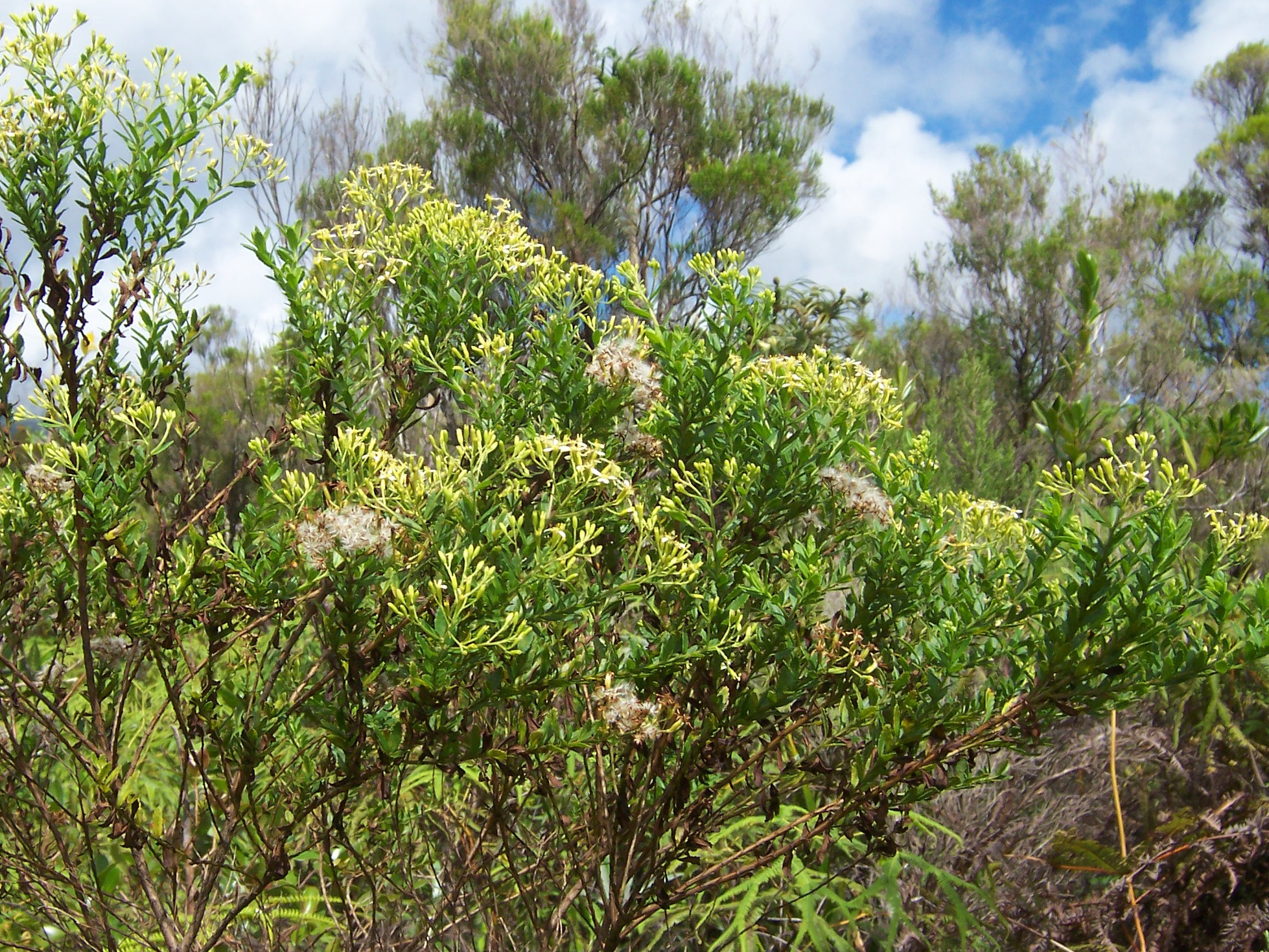 Hubertia ambavilla - (Réunion island) - Asteraceae family